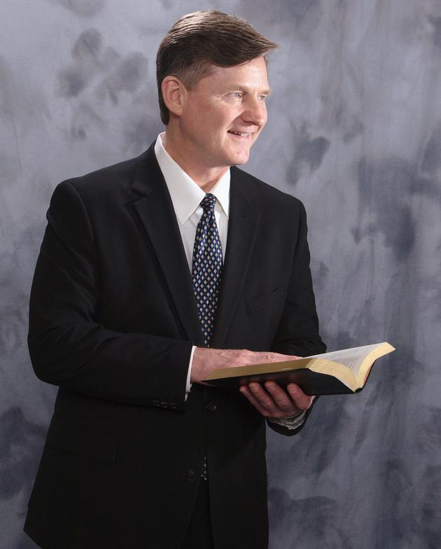 Image of Chaplain James F. Linzey